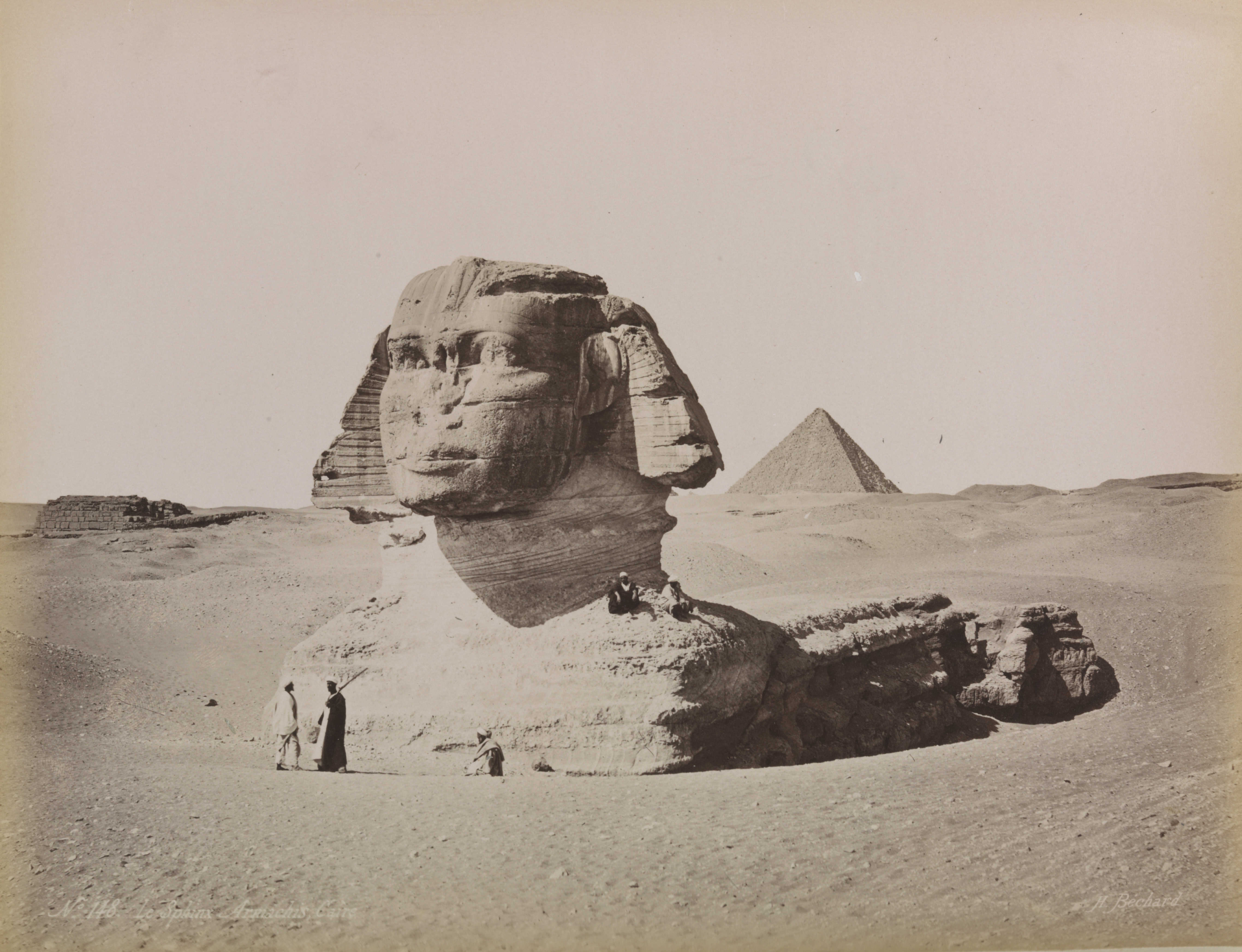 Henri Béchard (active 1870s & 80s); 'Le Sphinx Armachis, Caire' (The Sphinx Armachis, Cairo), about 1880; Albumen print; 21 x 27cm Don McCullin is one of Britain%u2019s greatest photographers. For his latest project he has photographed archaeological remains around the Mediterranean. On a recent visit to the Museum, to coincide with the opening of a major exhibition of his work, Don made a personal selection of photographs from the National Media Museum's collection, revealing how these sites were recorded by earlier photographers such as Francis Frith and Maxime Du Camp. Don McCullin: "It's very difficult to talk about the Spinx because it is so well known.This is a very simple, almost postcard-like image, but nevertheless if you look into it you see more and more. It's extraordinary. This is a remarkable photograph and here it is in this album, hidden away. It deserves a better place in the world really."